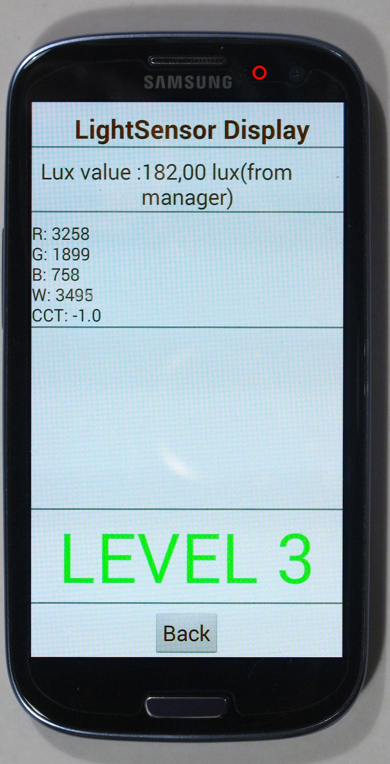 Smartphone as a luxmeter. The light sensor is marked in red